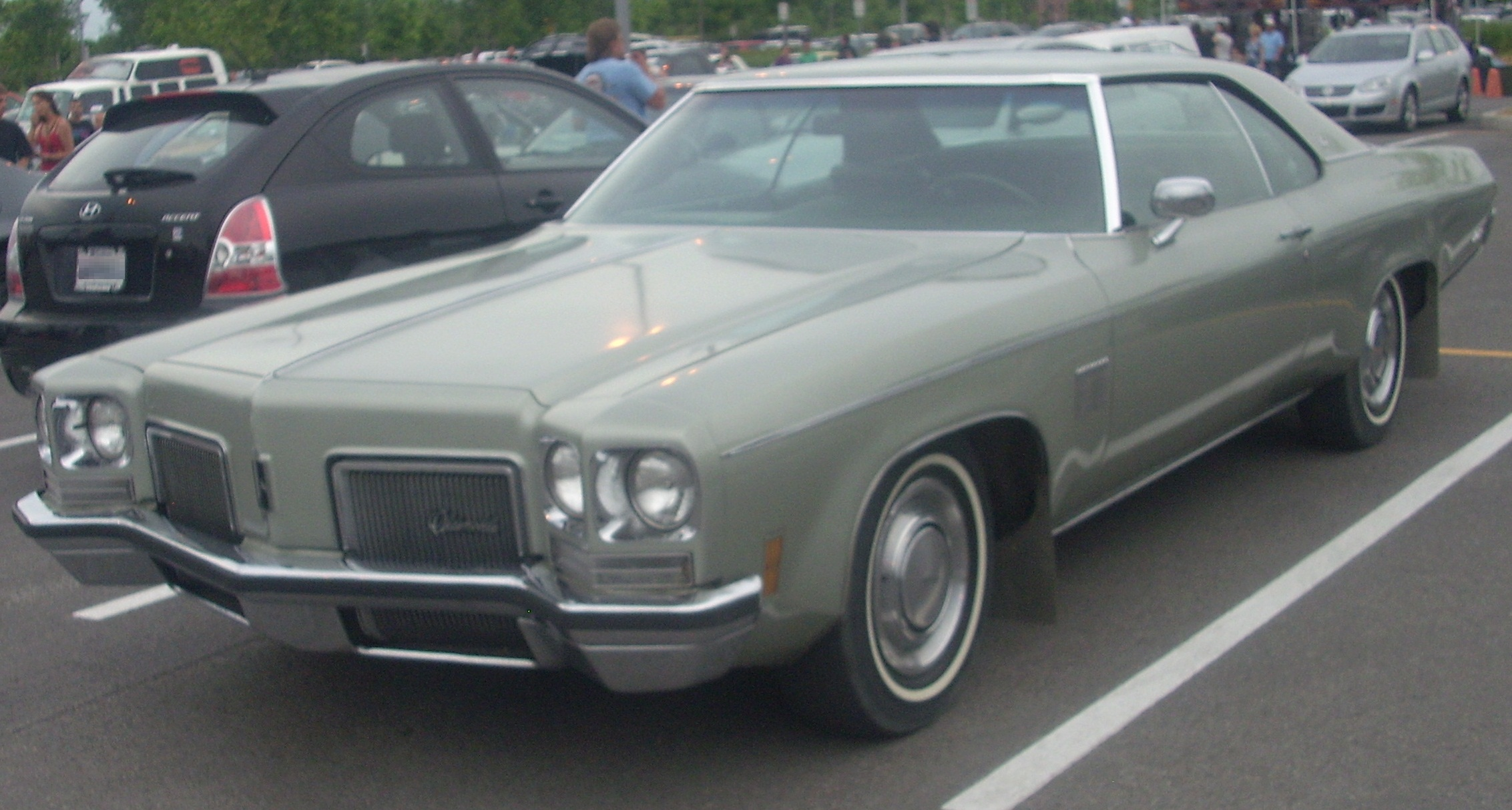 Oldsmobile Delta-88 photographed in Laval, Quebec, Canada at Centropolis Laval.